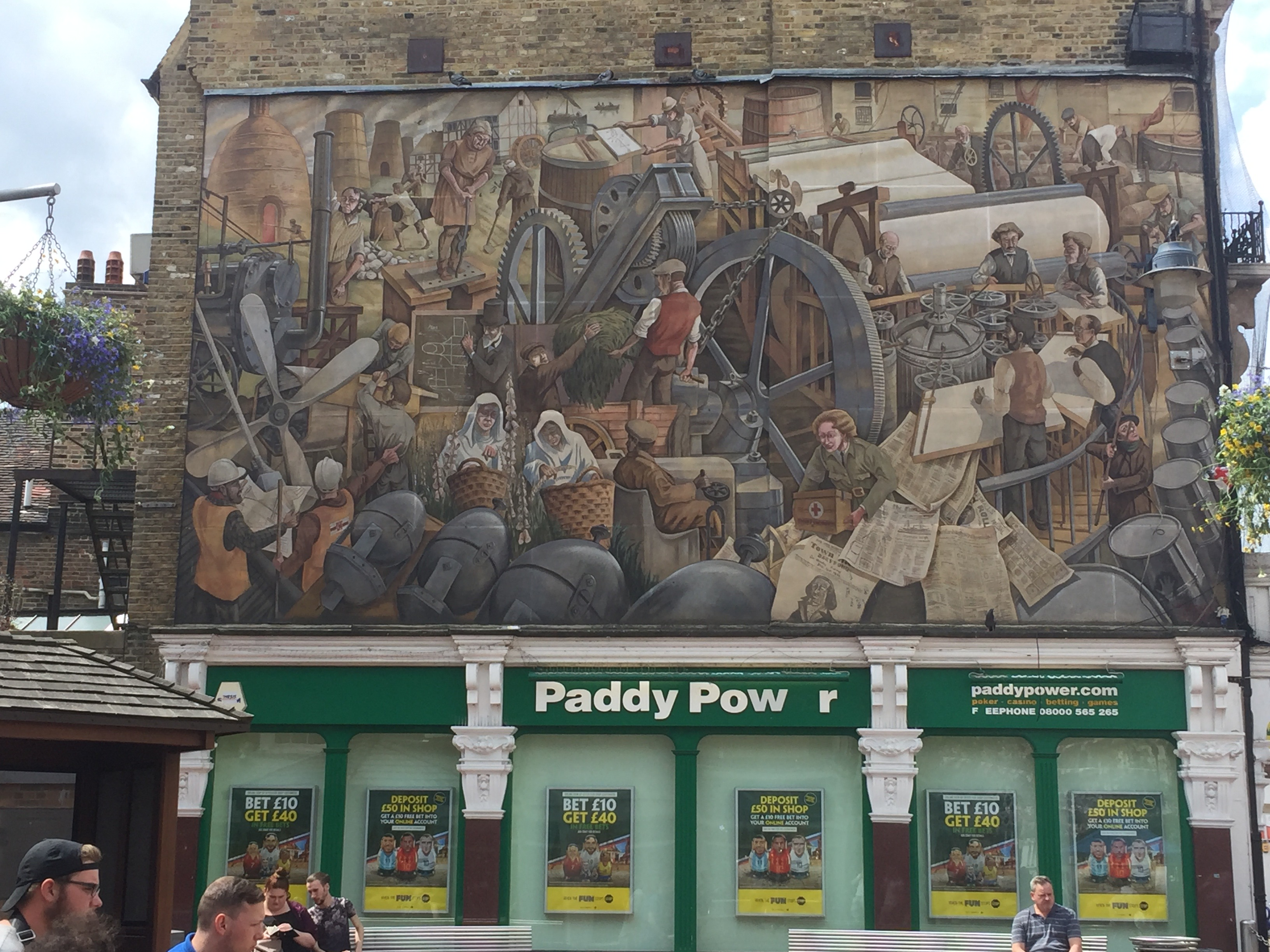 Dartford Industrial Heritage Mural titled 'One Town That Changed The World' designed and painted by artist Gary Drostle in 2000 on a gable end at One Bell Corner.